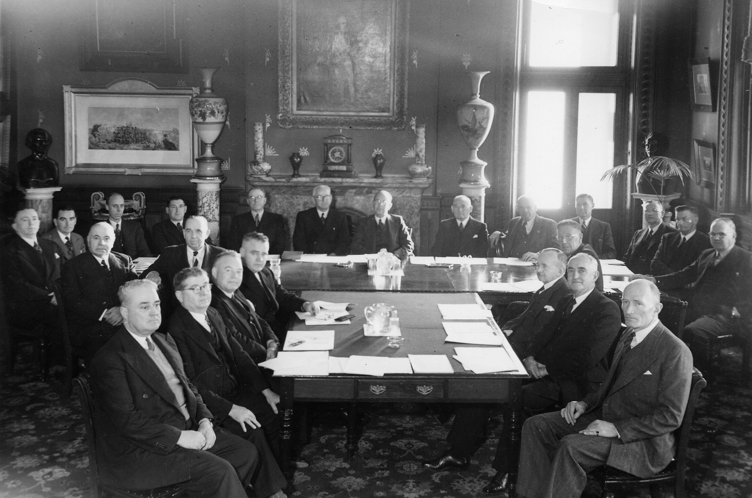 The first meeting of the governing Council of the New South Wales University of Technology (later known as the University of New South Wales), 6 July 1949[1] Around the table clockwise from the front left seat: HG Conde, GB Thomas, RC Harrison, Hon. JJ Maloney MLC, RJ Webster, WE Clegg, JP Glasheen, JS Fraser, Prof HJ Brown, JC Webb, A Denning, Hon RJ Heffron MLC, WC Wurth, Hon JSJ Clancy, JG McKenzie, Dr RW Harman, WG Kett, F Wilson, Prof SH Roberts, WR Laurie, JK MacDougall, PD Riddell, FM Mathews[2]